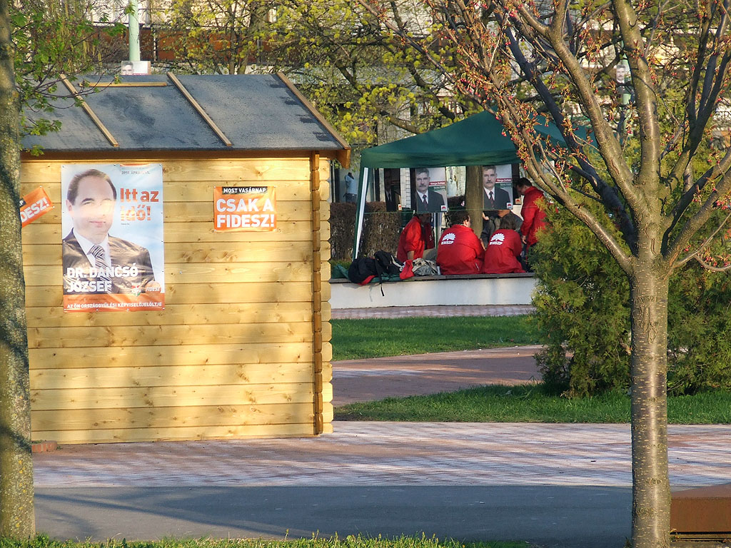 Campaign of the 2010 Hungarian parliamental elections - Wooden house of Fidesz, tent of MSZP